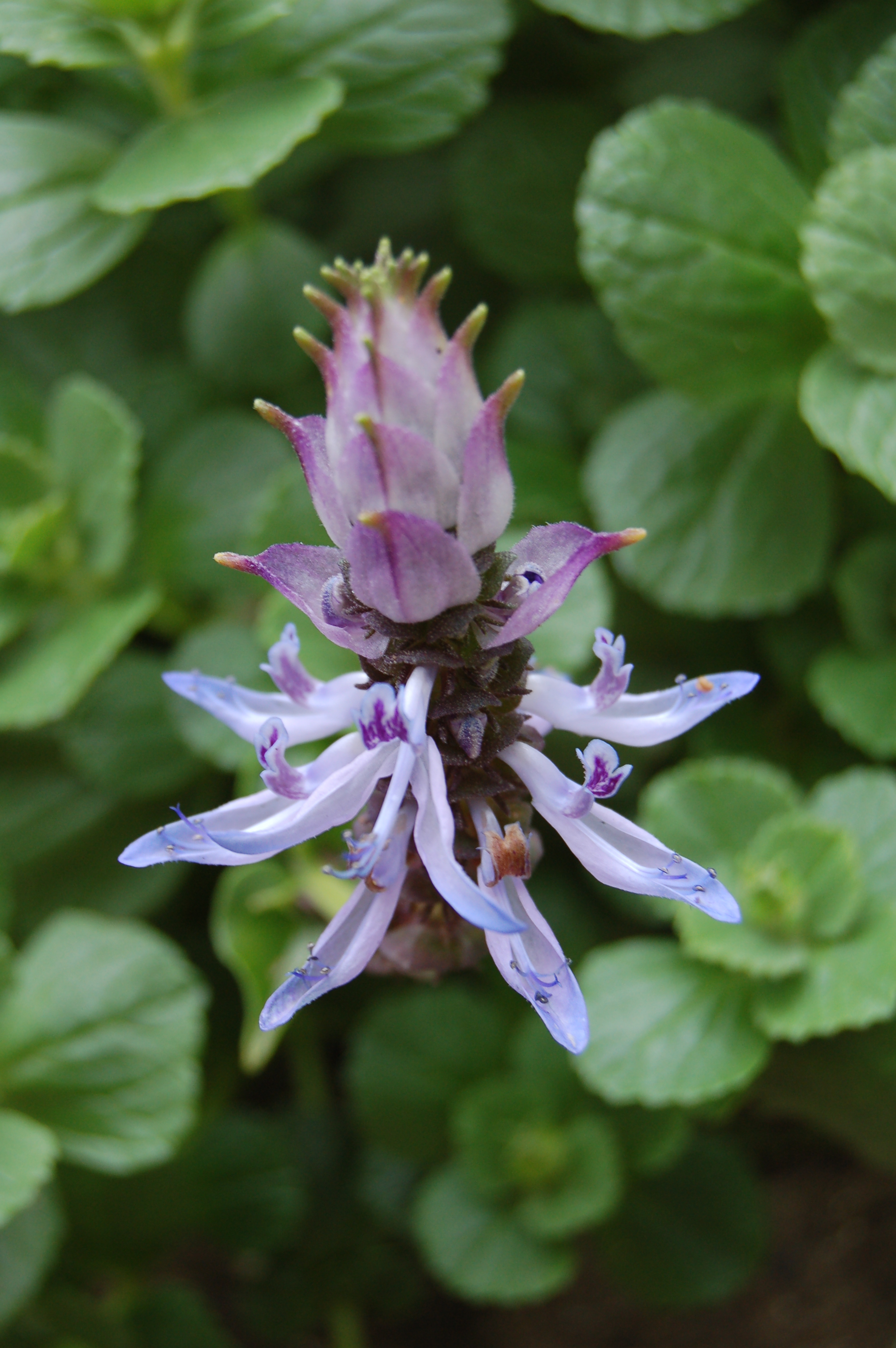 Plectranthus caninus flower September 2014 U.K. Believed by some to deter cats from the flower bed, however it is not unusual to find a 'turd' beside it, proving that it does not work on every cat.